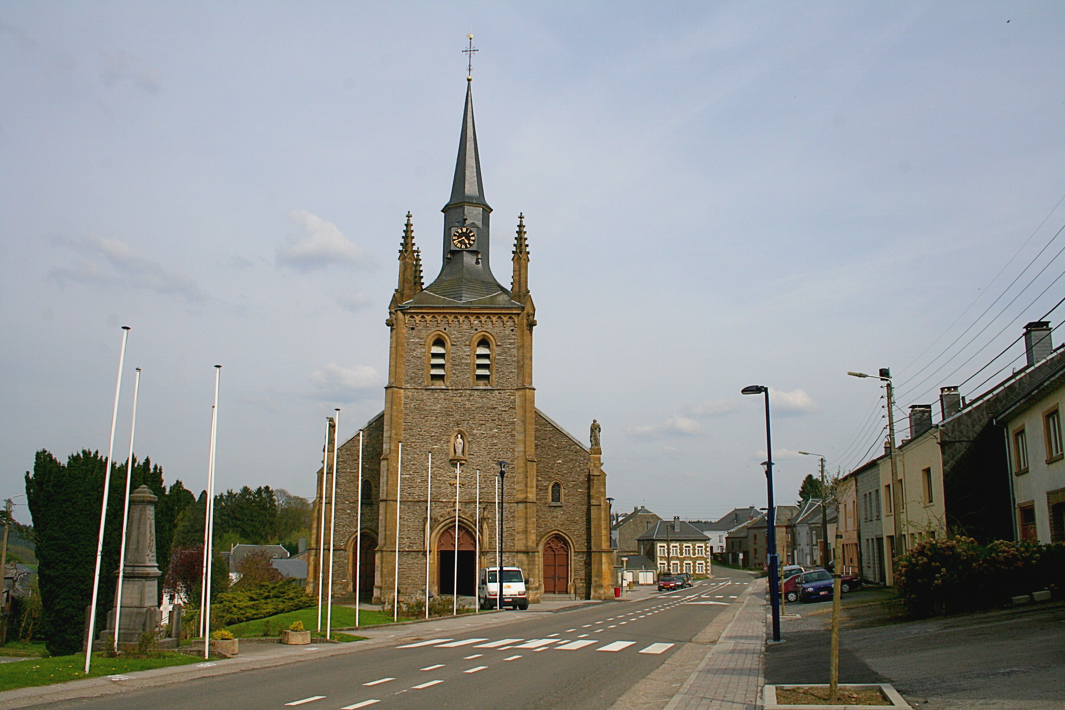 Sugny (Belgium): the memorial dedicated in honour to the victims of the two last world wars and the St. Martin's church (1851).